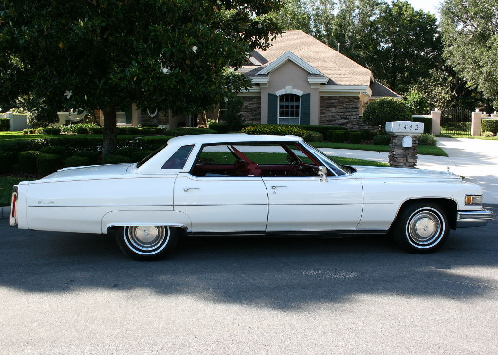 This is a picture of a vehicle (name of it is on the file name).